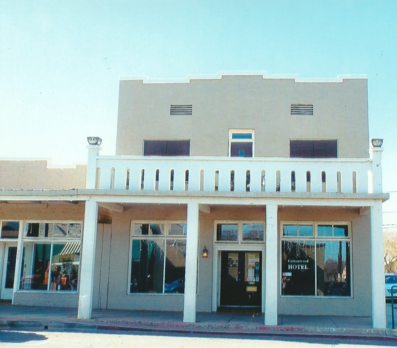 The Cottonwood Hotel - built in 1917 and is located at 930 N. Main Street. Mae West stayed there and so did John Wayne and Gail Russell during their filming of ‘Angel & the Badman’ in 1946.